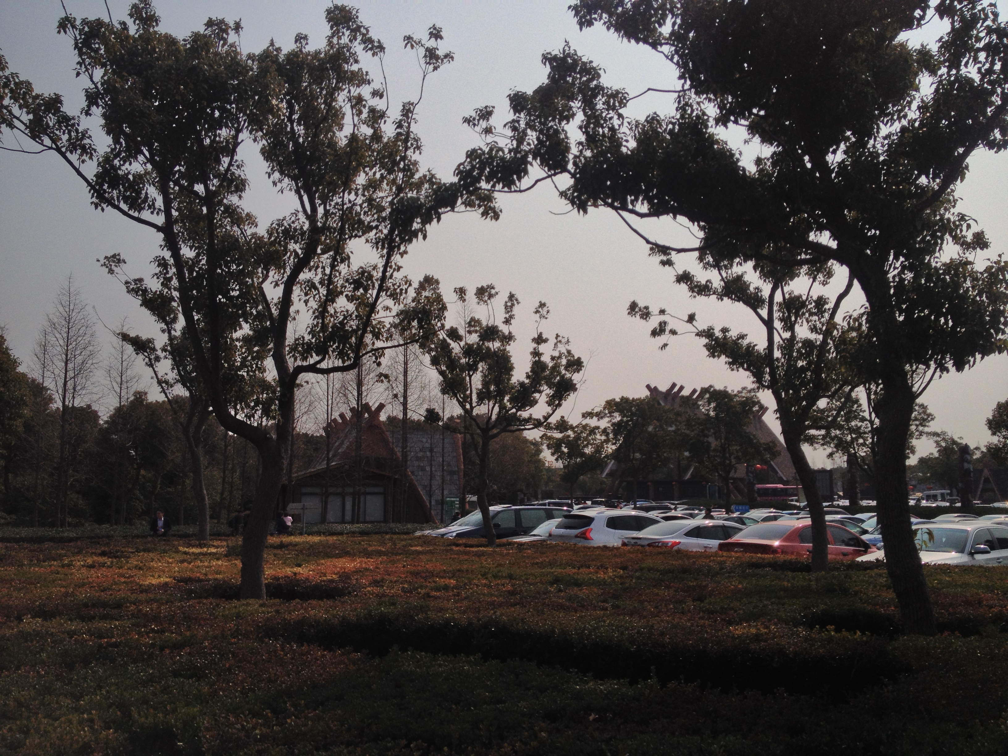 The Car Park of Shanghai Wild Animal Park(Zoo)